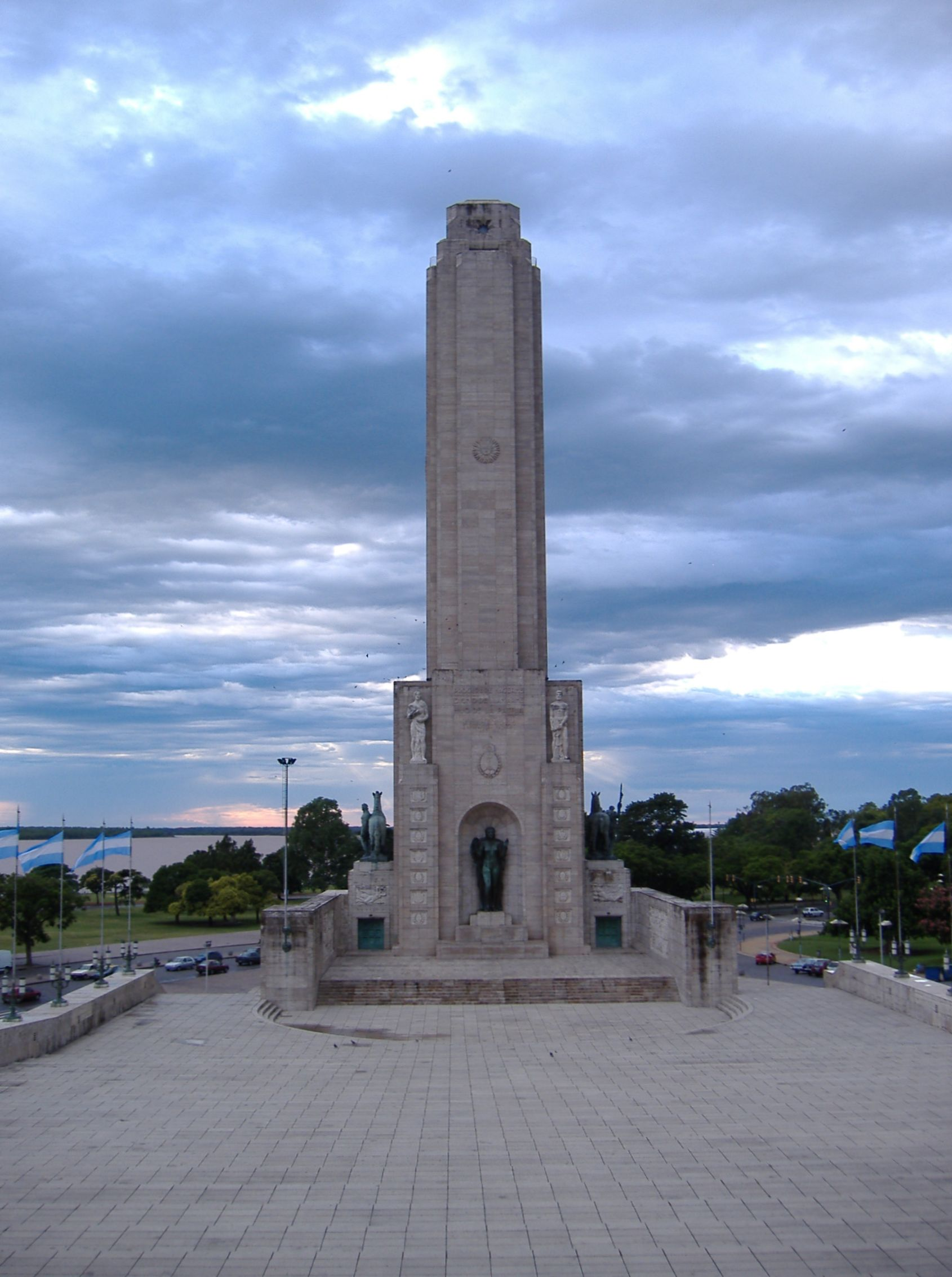 The National Flag Memorial (Monumento Nacional a la Bandera) in Rosario, Argentina, near the banks of the Paraná River. I, Pablo D. Flores, took this picture on 28 February 2006.